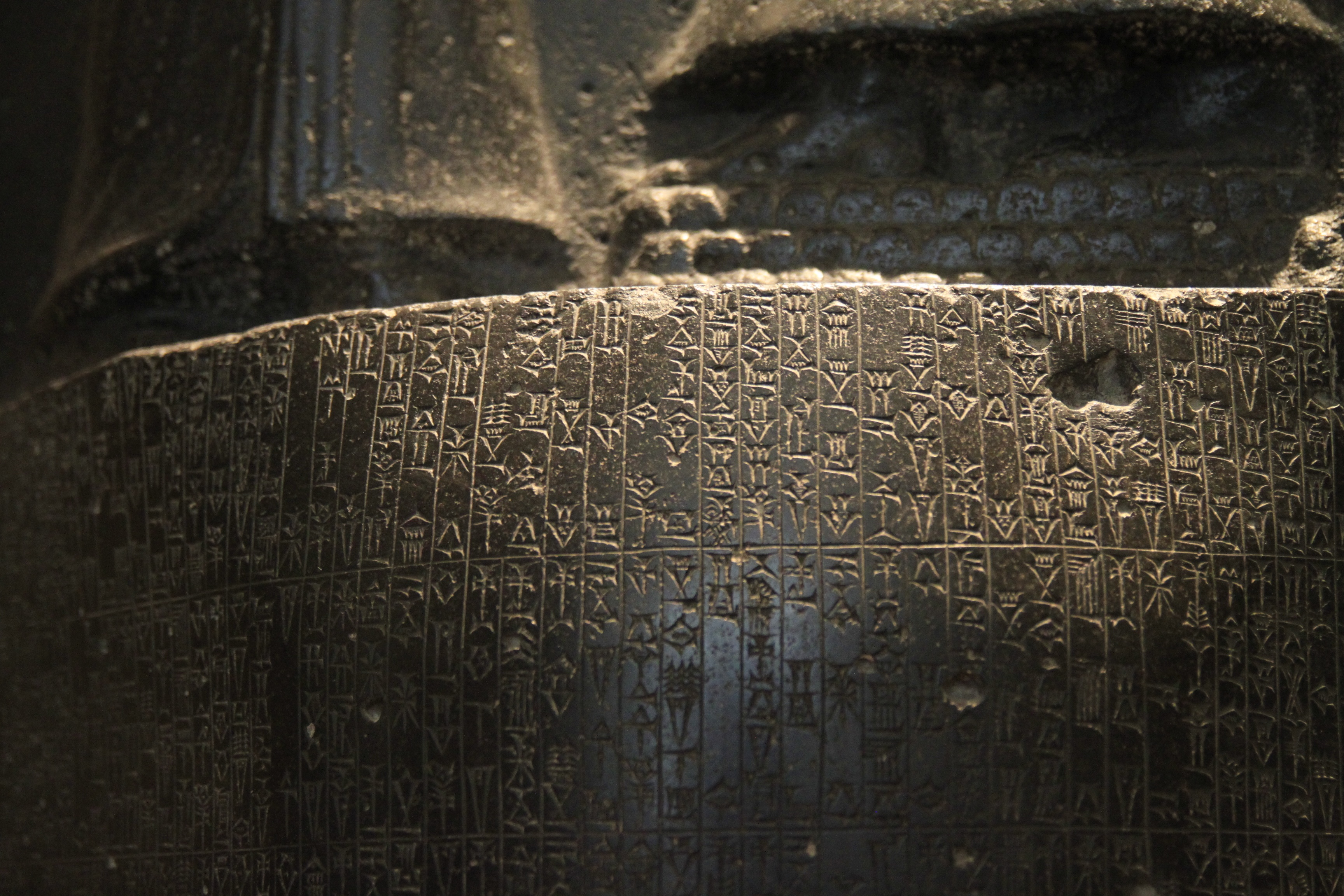 Code of Hammurabi